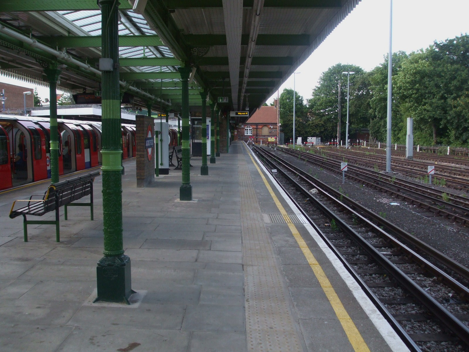 Woodford tube station bay platform looking north ("eastbound"). Used by the few eastbound trains terminating at Woodford from the south. There are also five carriage stabling sidings to the right.